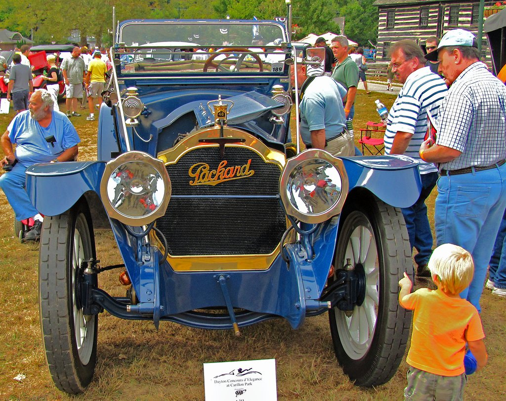 1914 Packard 4-48 Runabout. Seen at the 2010 Dayton Concours d'Elegance. I read that only 441 4-48's were built and less than 10 remain. This one is owned by America's Packard Museum in Dayton. Here's a fascinating article